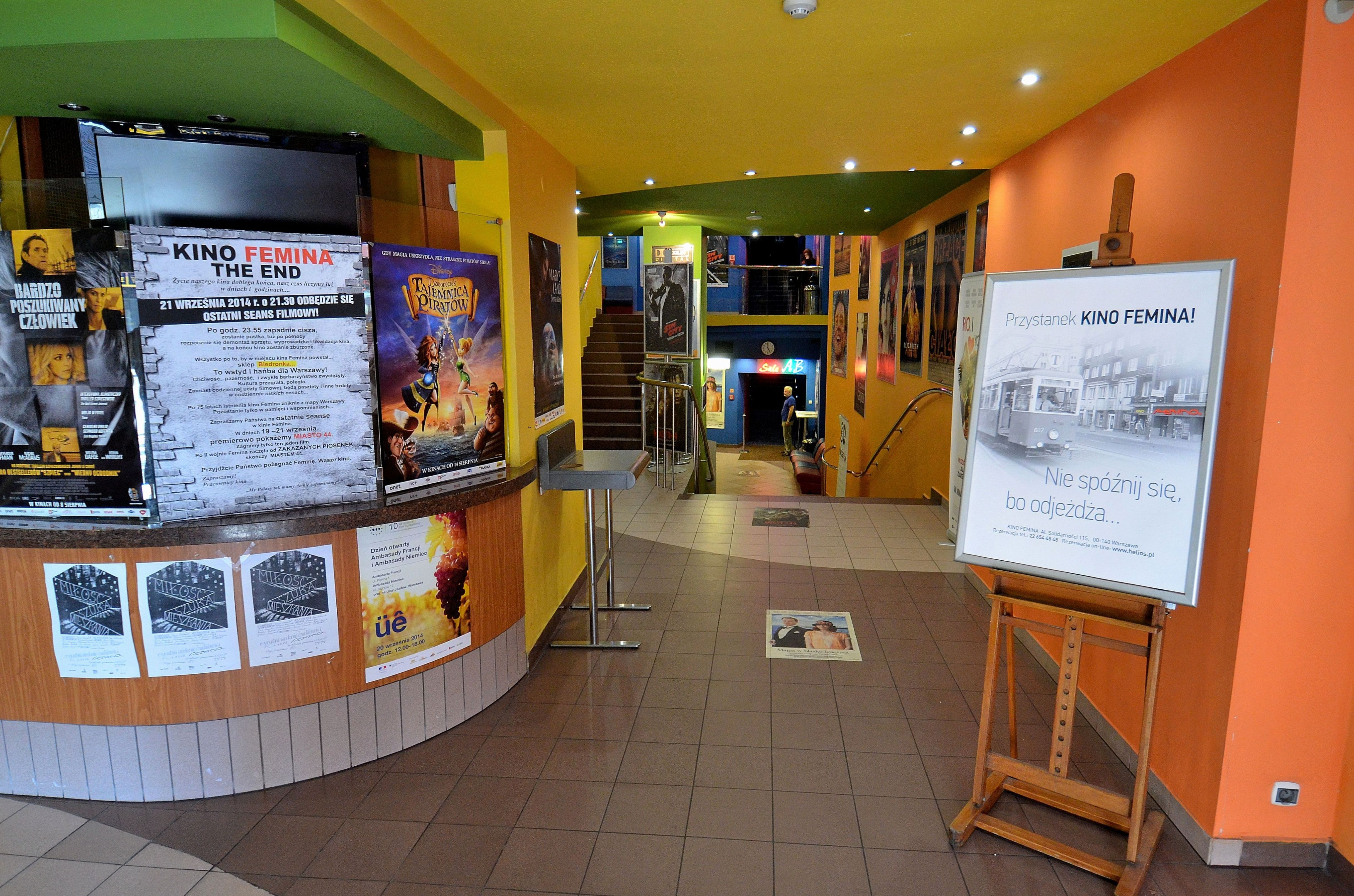 Hall of Femina Cinema in Warsaw